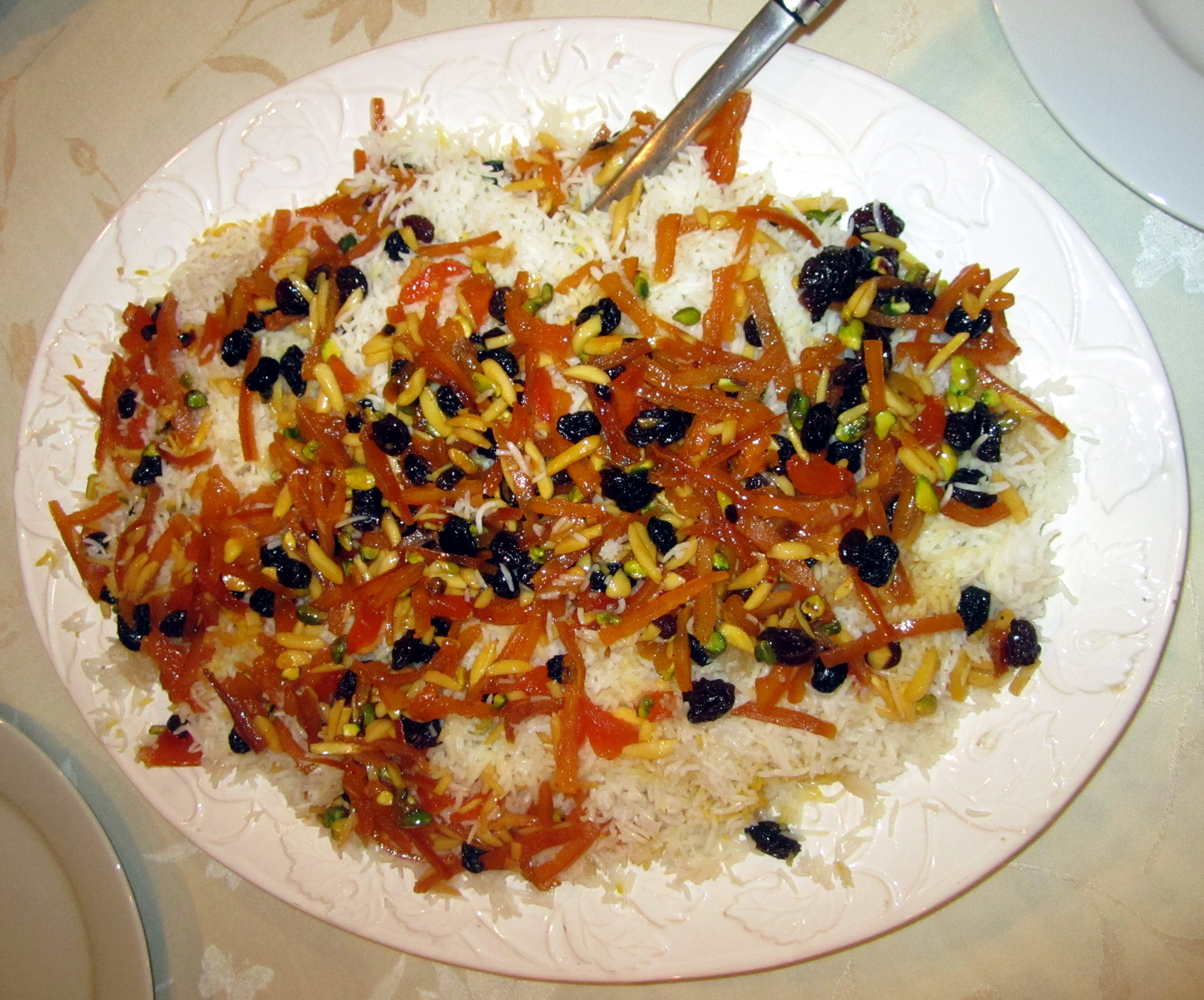 Sweet pilaf or shirin polo